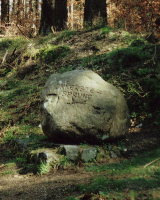 The source of river Innerste is at a place called "Innerstesprung" in the Harz Mountains.